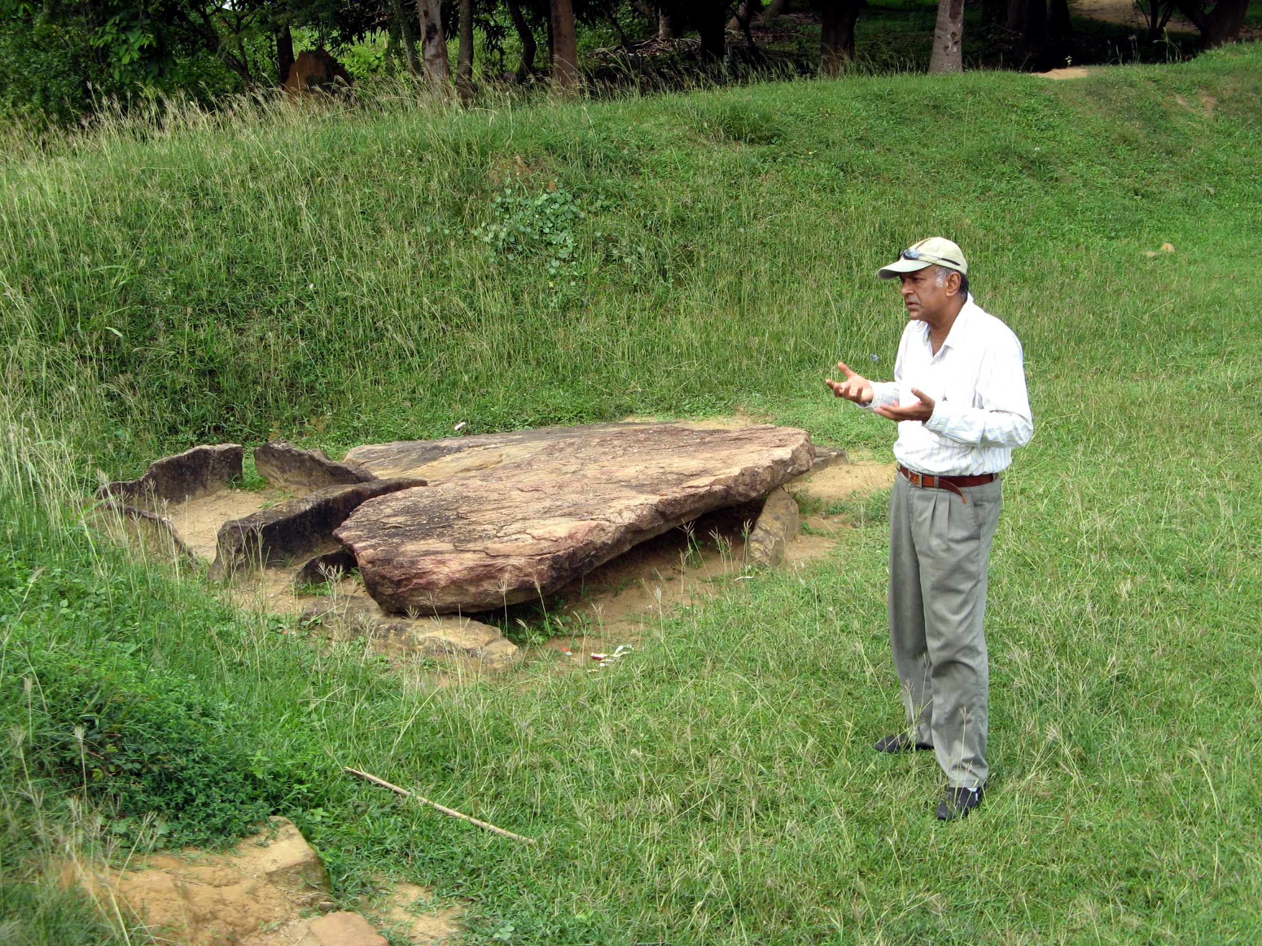 Chieftain's Grave. Ibban Katuwa, Sri Lanka. Professor Sudharshan Seneviratne, of the University of Peradeniya, discusses a cist grave, whose intact capstone bears a lineage symbol (horned square) and whose grave goods included carnelian beads, gold, and mica. The richness of this burial suggests that an important personage, possibly a chieftain or lineage head, was interred here. Prof. Seneviratne is Director General (2008) of the Central Cultural Fund, which is the custodian organization for all UNESCO-registered World Heritage sites in Sri Lanka.